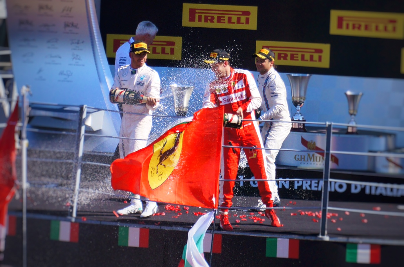 Italian Grand Prix Monza 2015